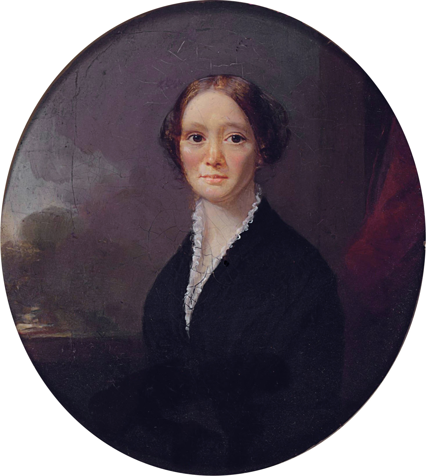 Clara Bartlett Gregory Catlin, wife of George Catlin oil on canvas, mounted on masonite 14 x 13 cm